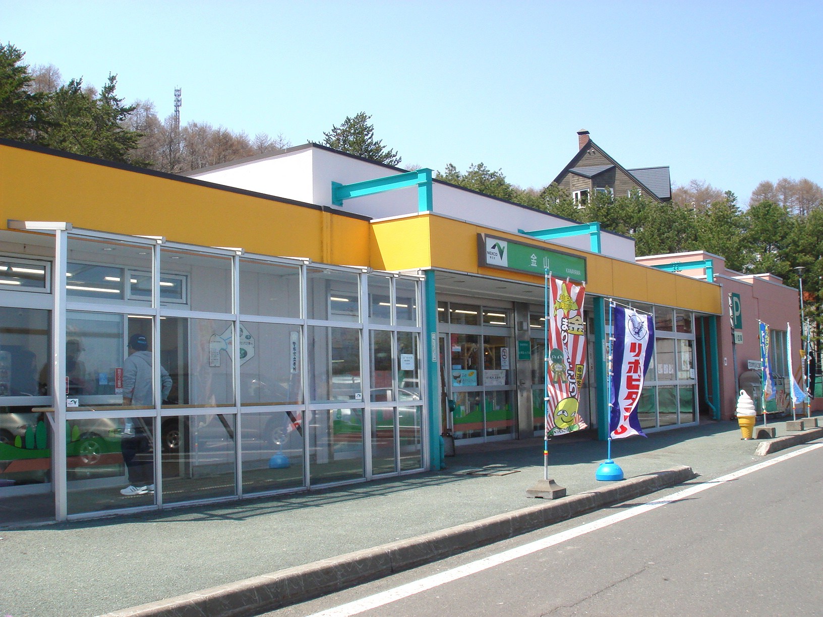 Sasson Expressway Kanayama Parking Area for Otaru